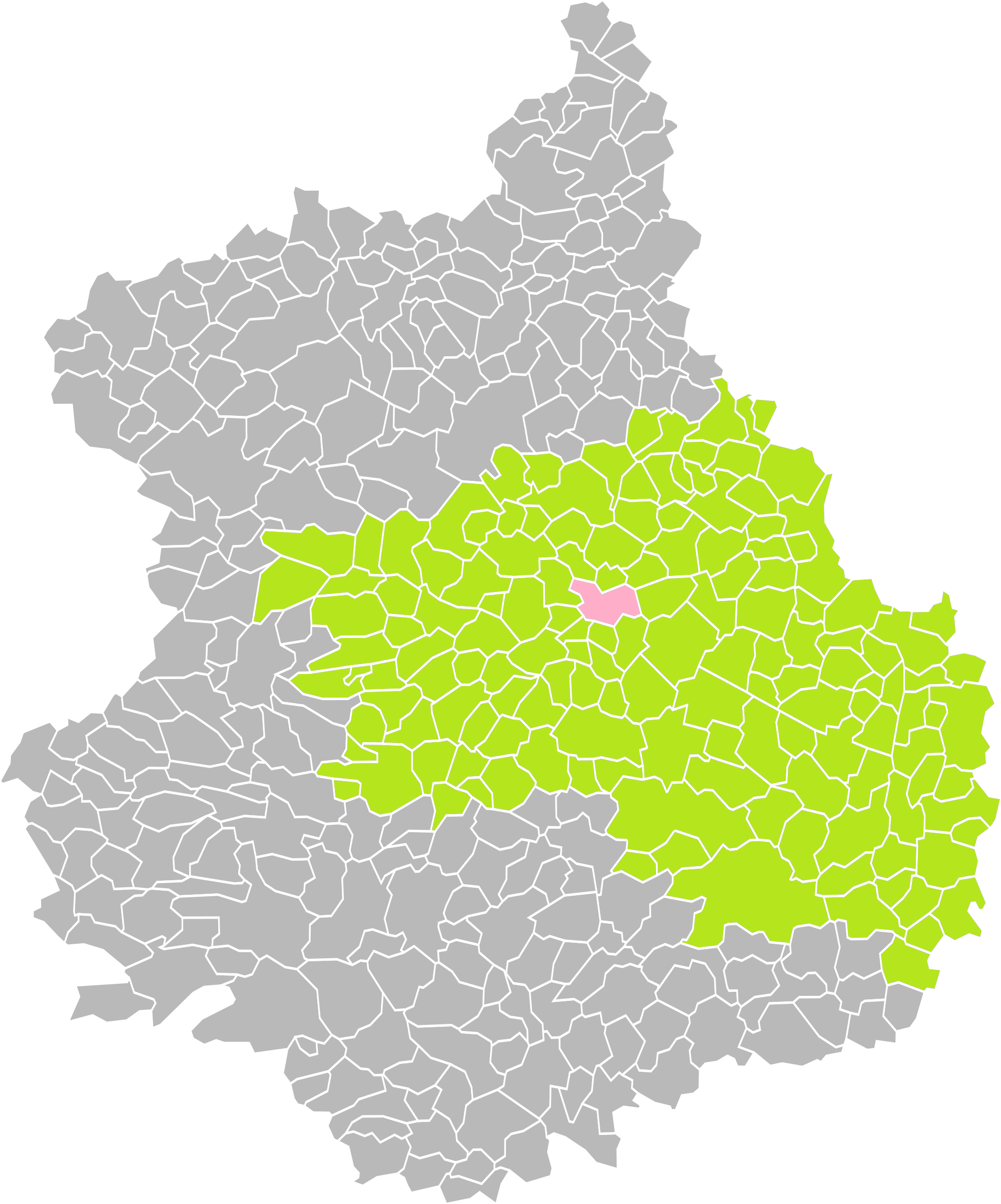 Location of the commune of Chartres in the arrondissement of Chartres (Eure-et-Loir)